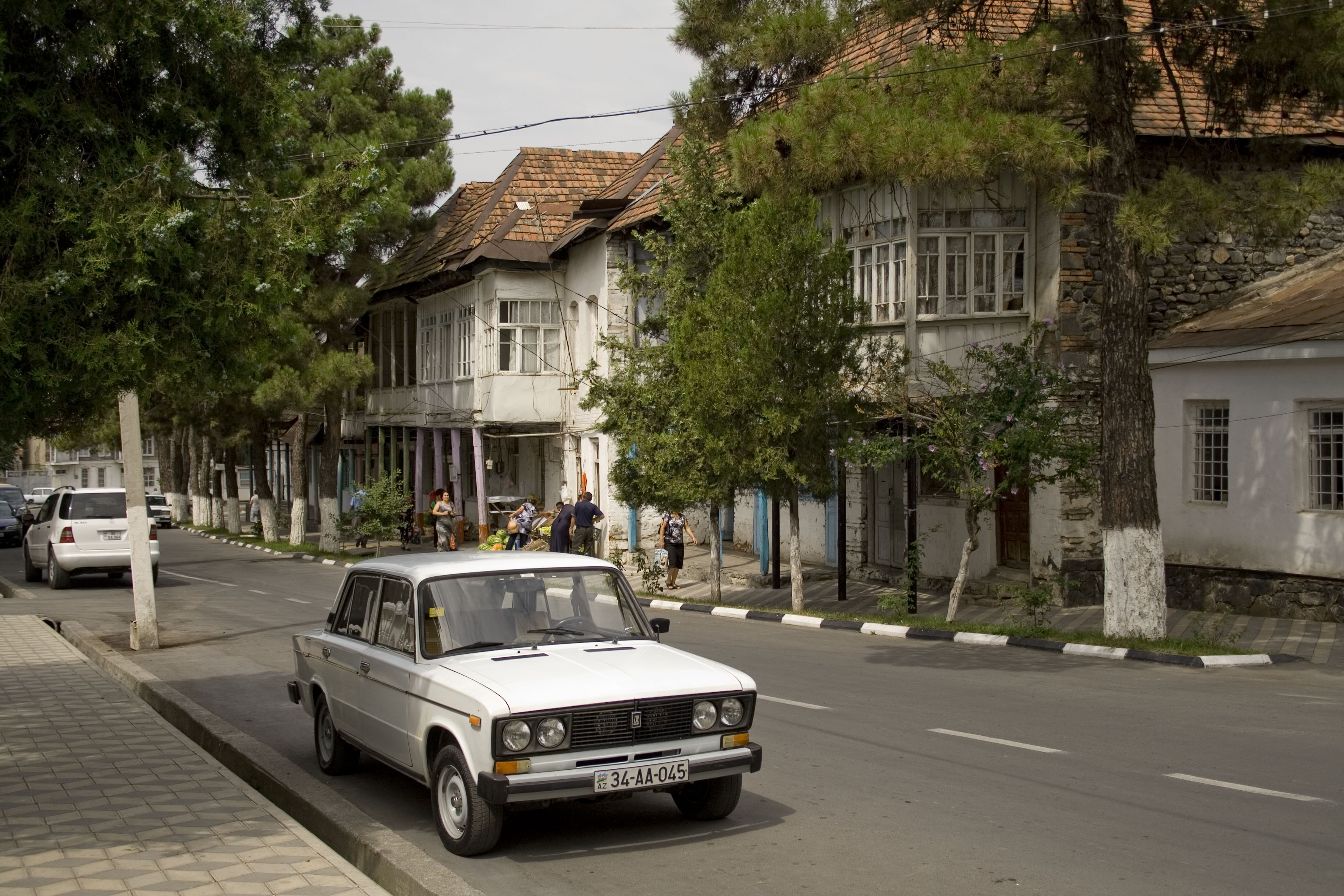 A view of an old street in Qax, nothern Azerbaijan